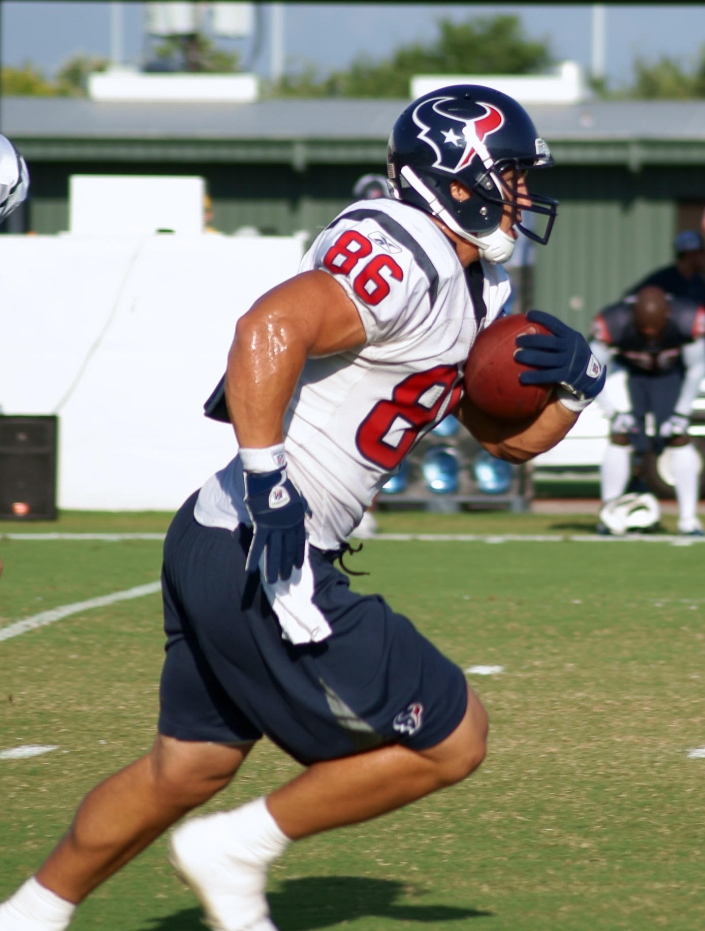 James Casey (TE) of the Houston Texans